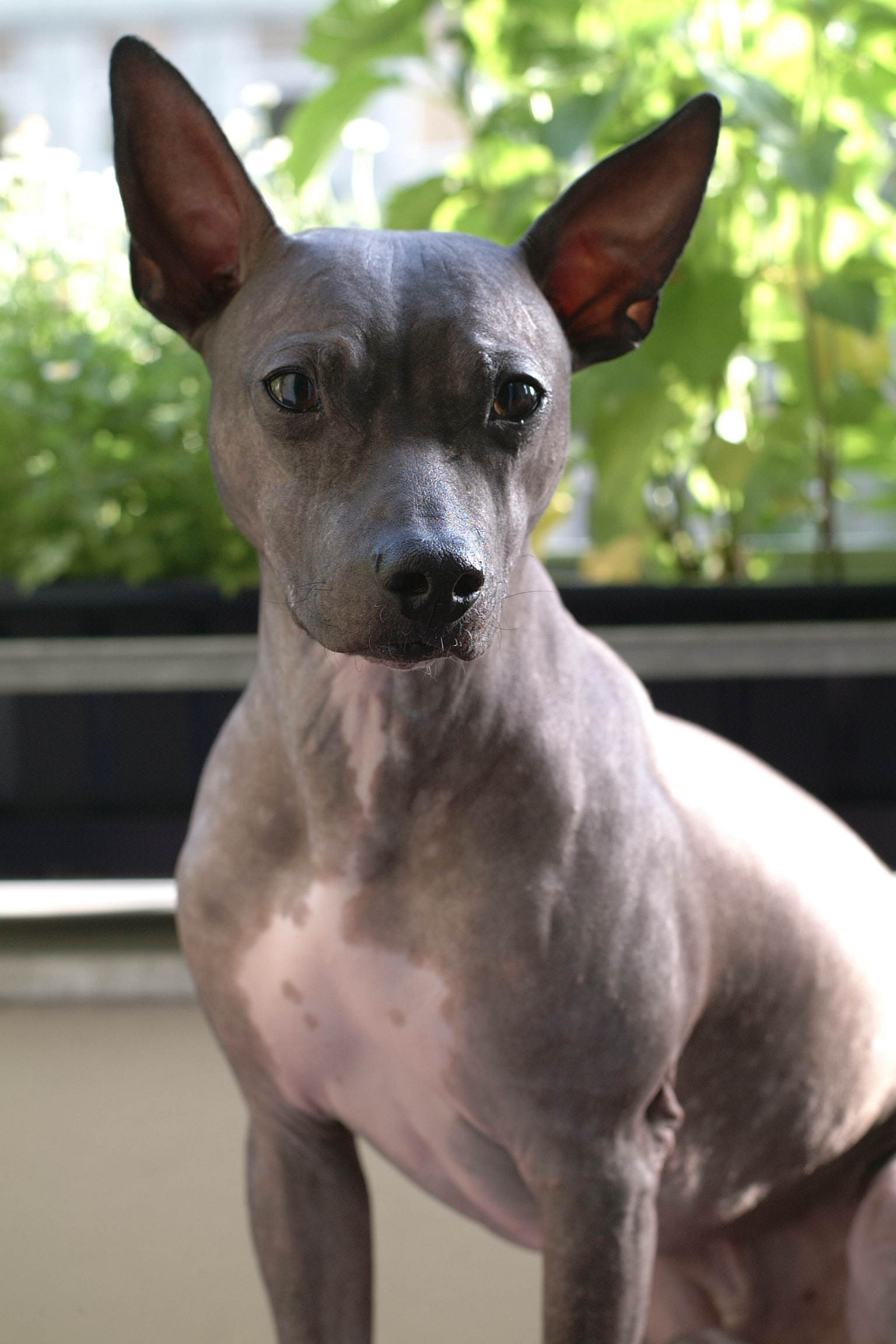 American Hairless Terrier, Grand Animal "Adelor" - Germany